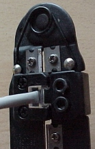 Do it yourself. Make UTP (Unshielded Twisted Pair) and connect RJ45 connector. Step 8: use crimp tool to fix RJ45 connector